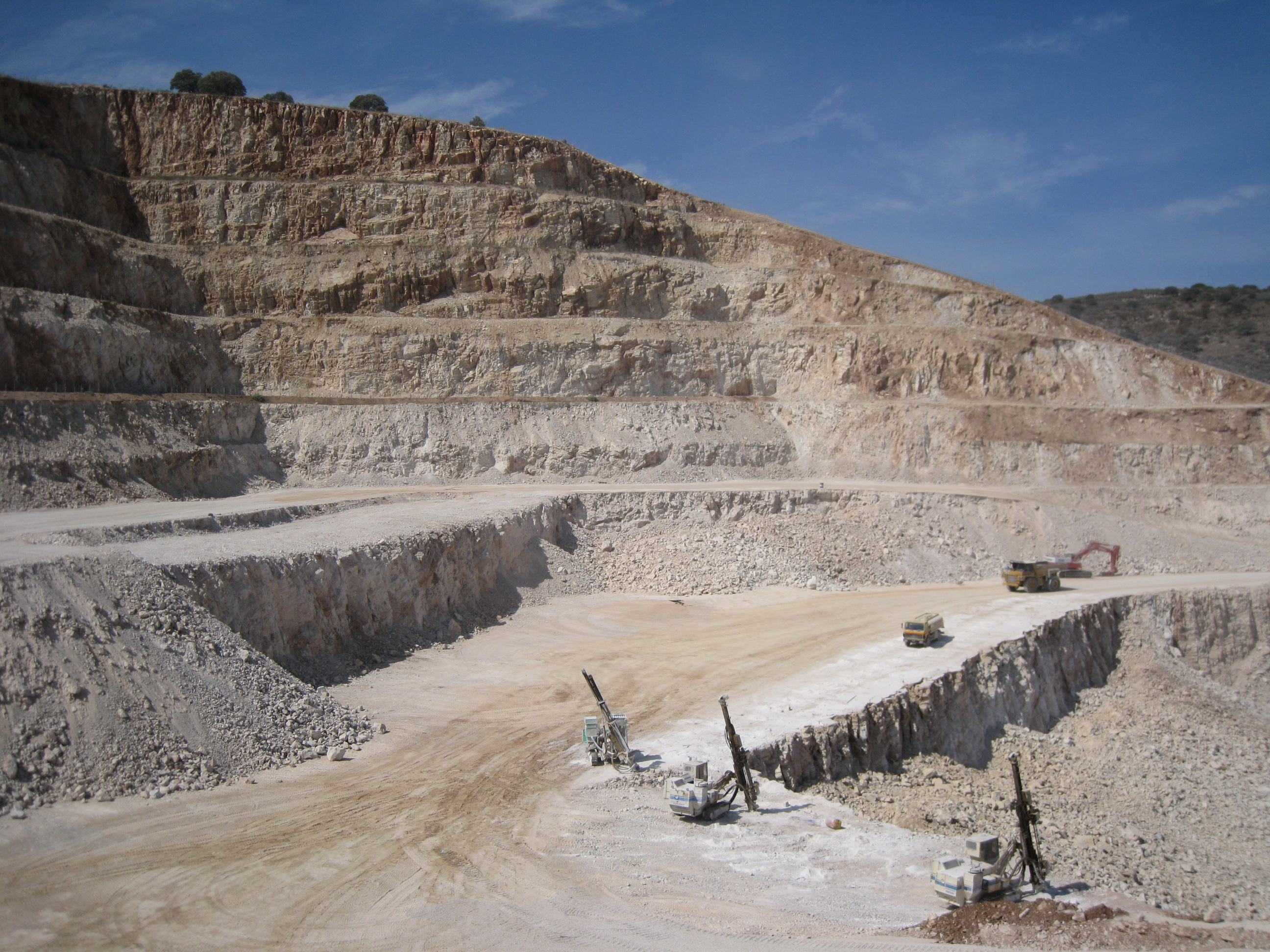 Limestone Quarry for aggregates production